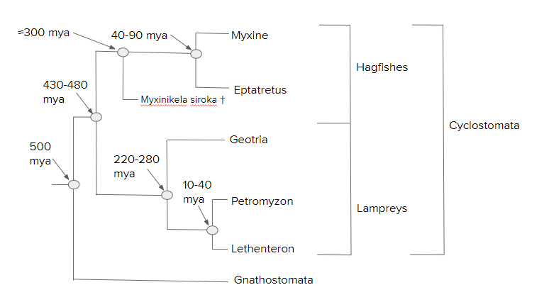 Cyclostome phylogeny